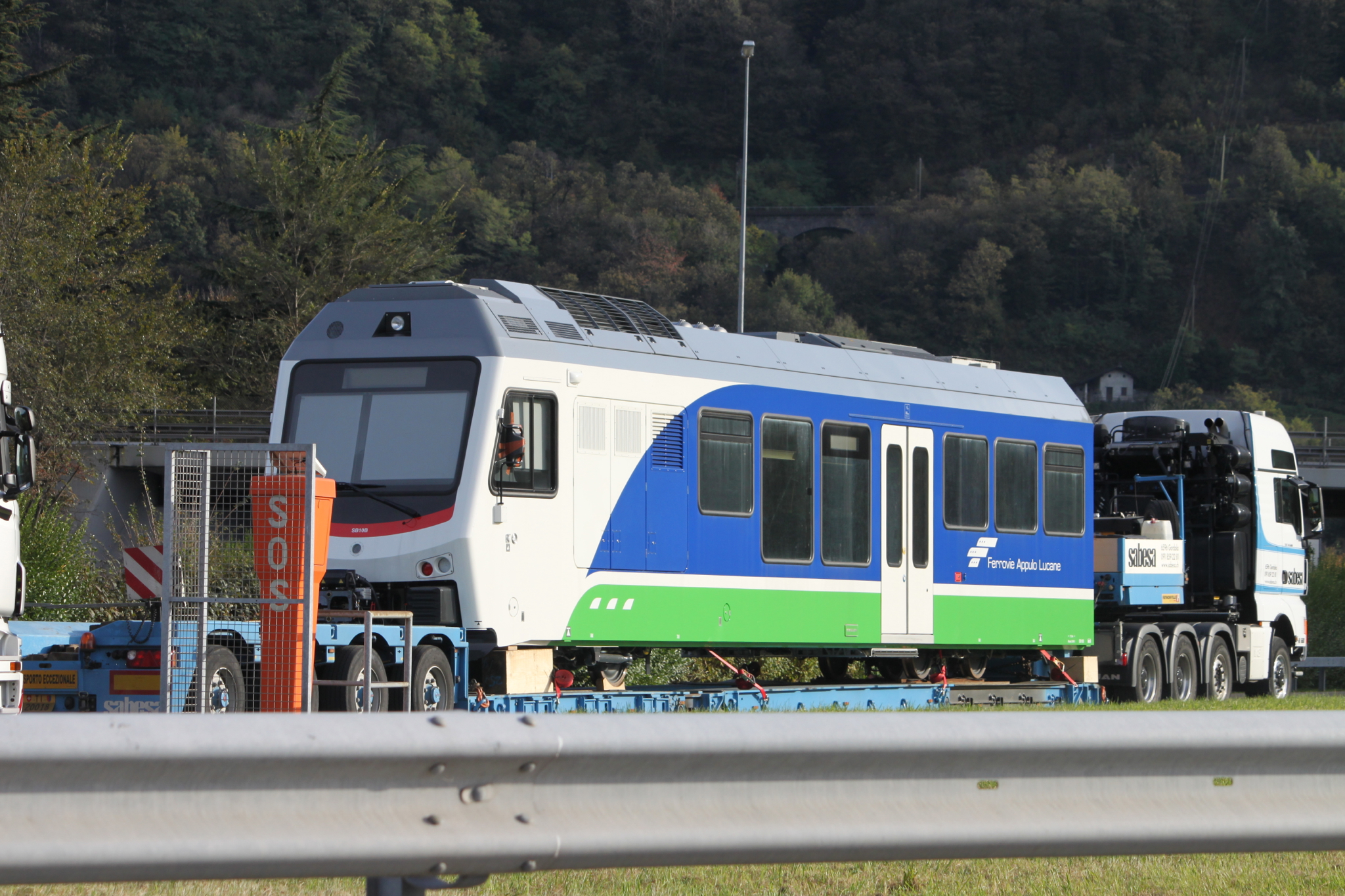 FAL SB10B at Bellinzona Sud motorway junction.